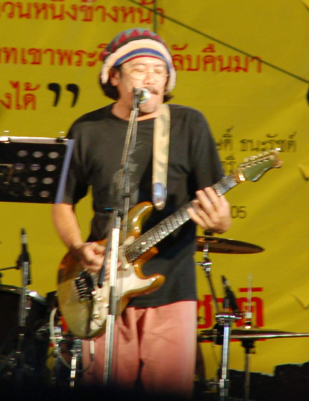 Rapin Bhuddichart (ระพินทร์ พุฒิชาติ - น้าซู) on stage with Zuzu in a concert at Makkawan bridge, cropped from original image.